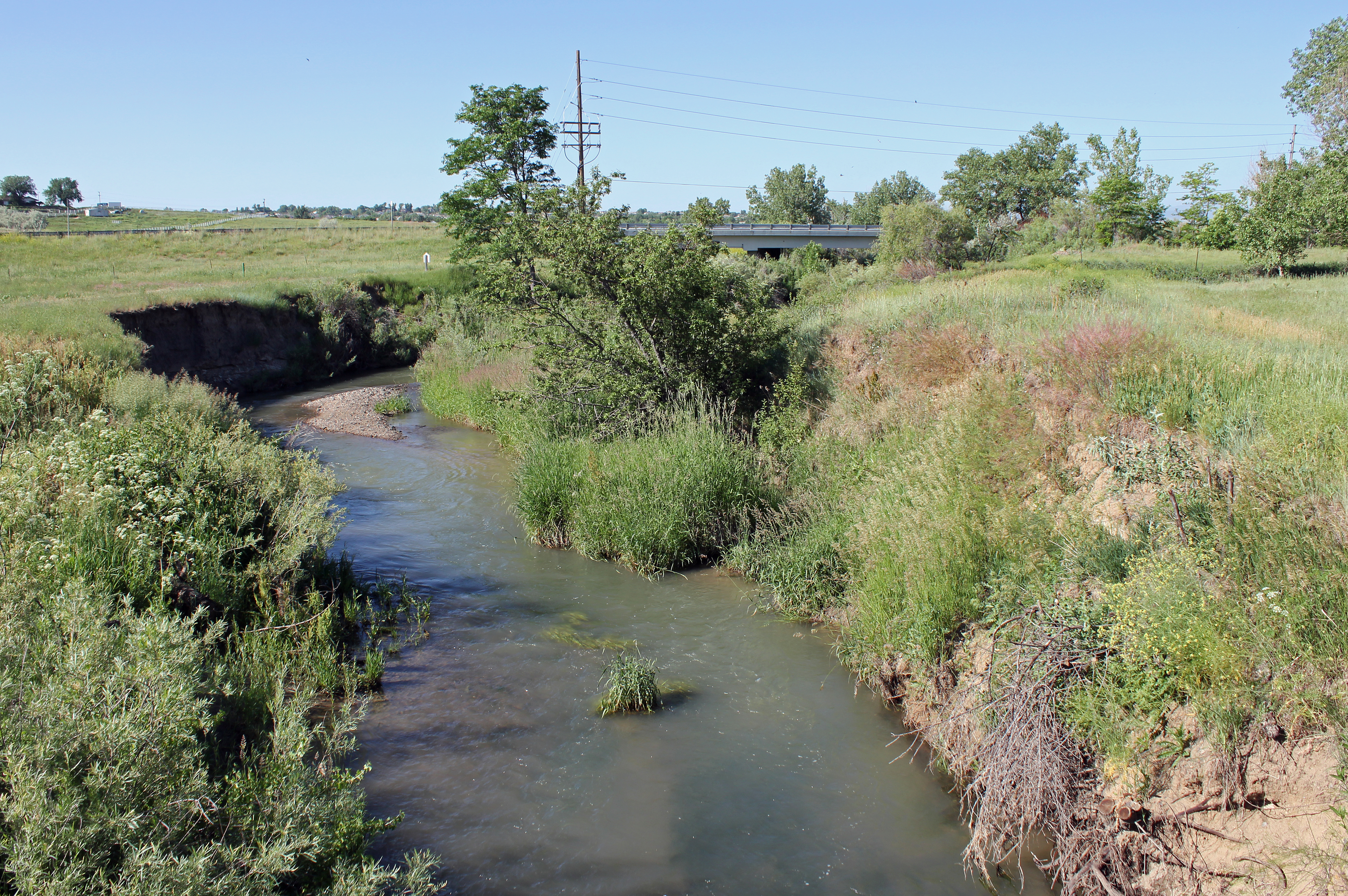 Big Dry Creek. This creek rises in Jefferson County, Colorado, passes through Jefferson, Adams, and Weld counties, and empties into the South Platte River near Fort Lupton, Colorado. (There is a second Big Dry Creek in the Denver Metropolitan area that rises in Douglas County and merges with the South Platte in Littleton, Colorado). This picture is taken in Westminster, on the eastern border of the Metzger Farm Open Space. The view is to the south (here the river flows north), and the bridge in the picture is West 120th Avenue.